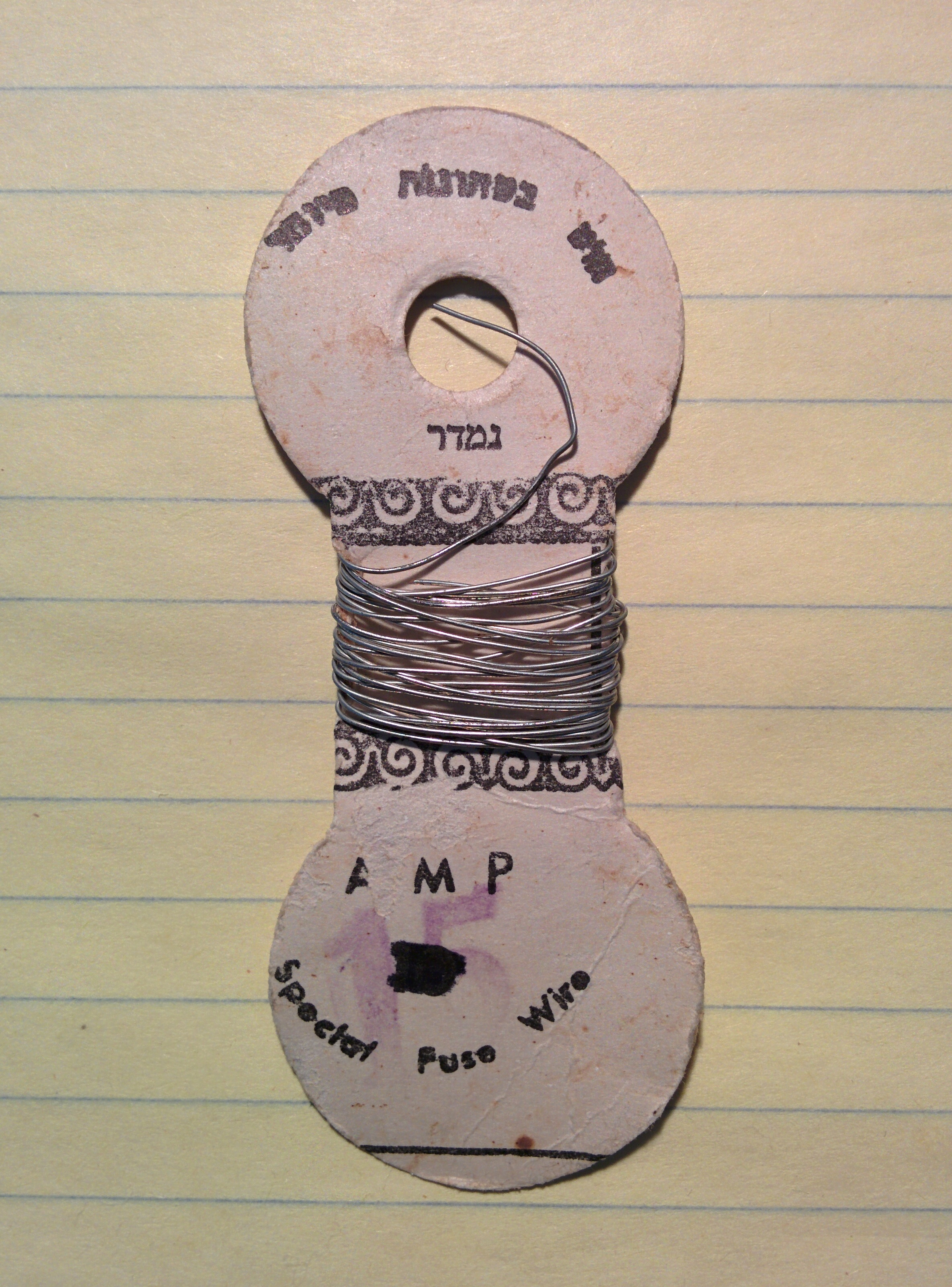 15 Amp replacement 'Special Fuse Wire' (Israel, 1950's)